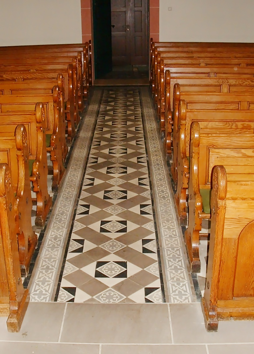 Flooring, Lutheran church, Prüm, Rhineland-Palatinate, Germany